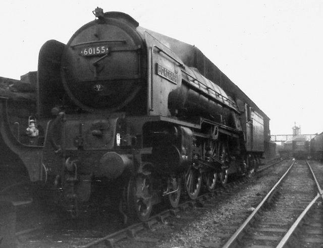 Gateshead locomotive sheds Class A1, Borderer primed and ready for duty, by the coaling stage at Gateshead depot.